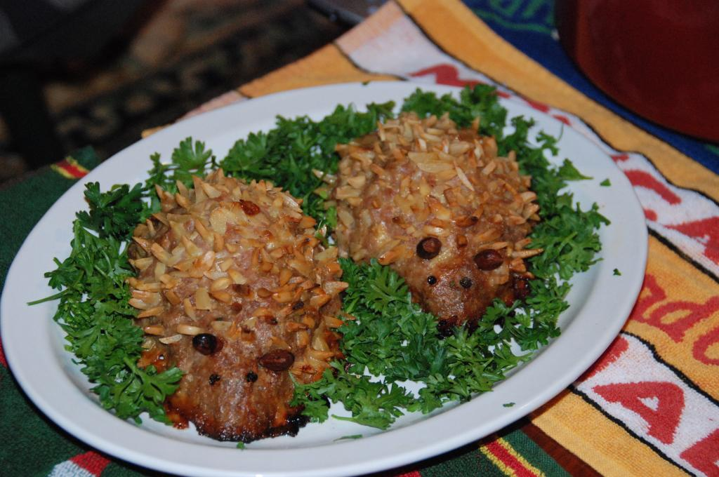 Pork hedgehogs, cooked and photographed by User::MattHucke